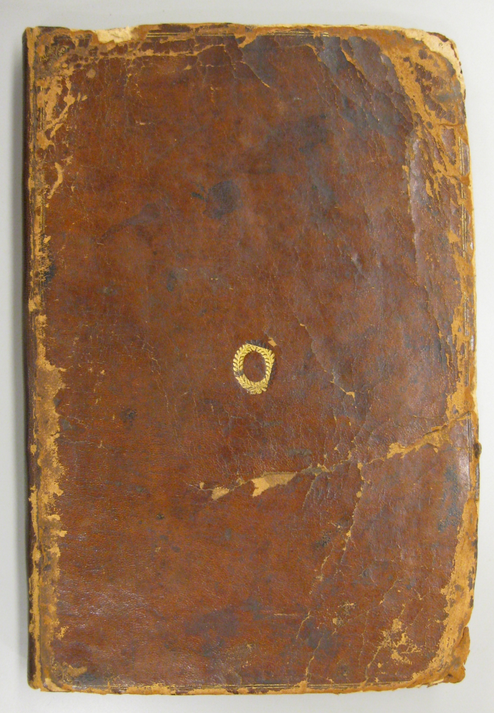 Front cover of Drexel 5611, a 17th-century manuscript in the Music Division of the New York Public Library